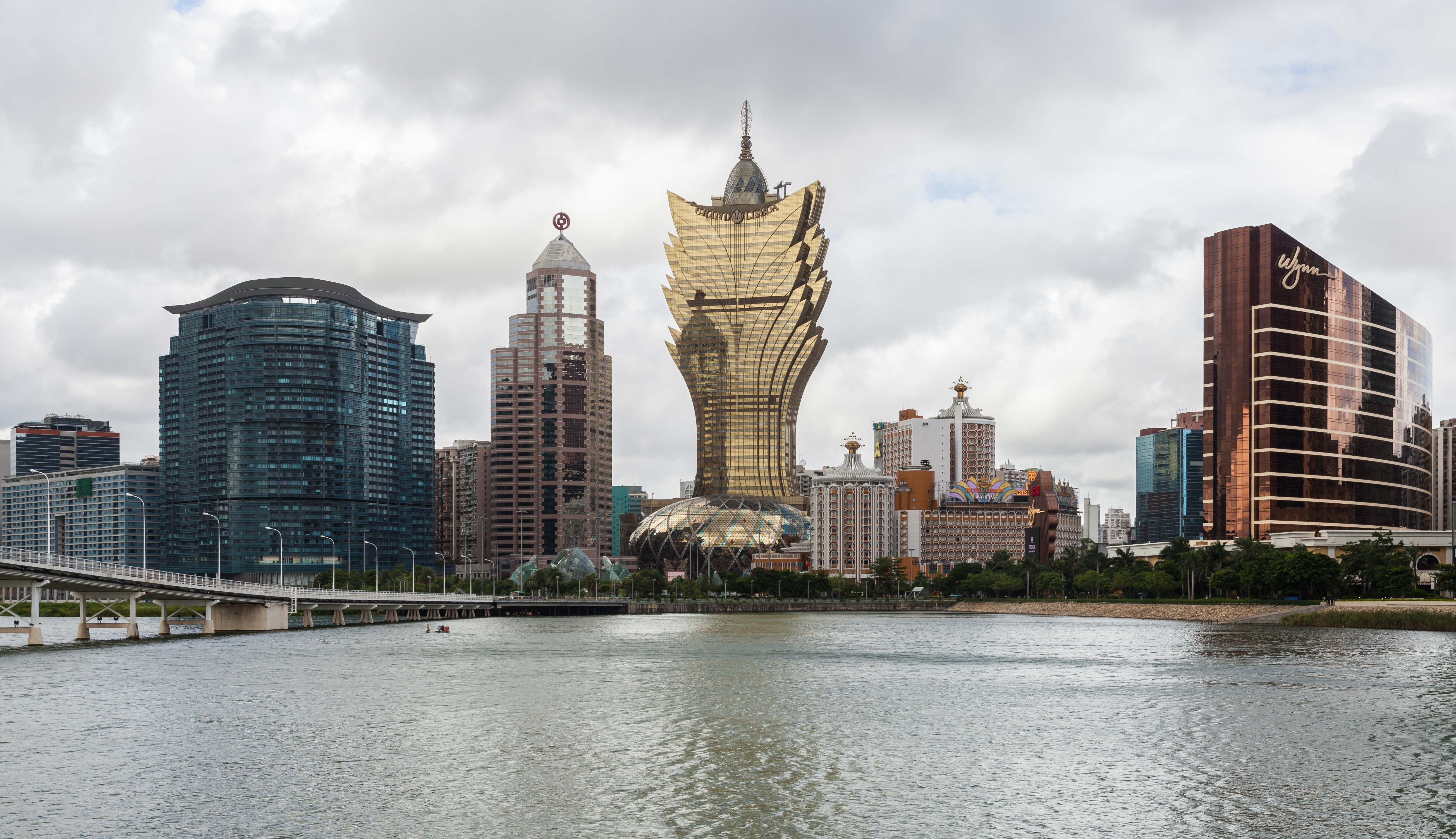 Nam Van Lake, Macau